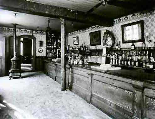 Interior view of the Old Absinthe House, New Orleans, 1903